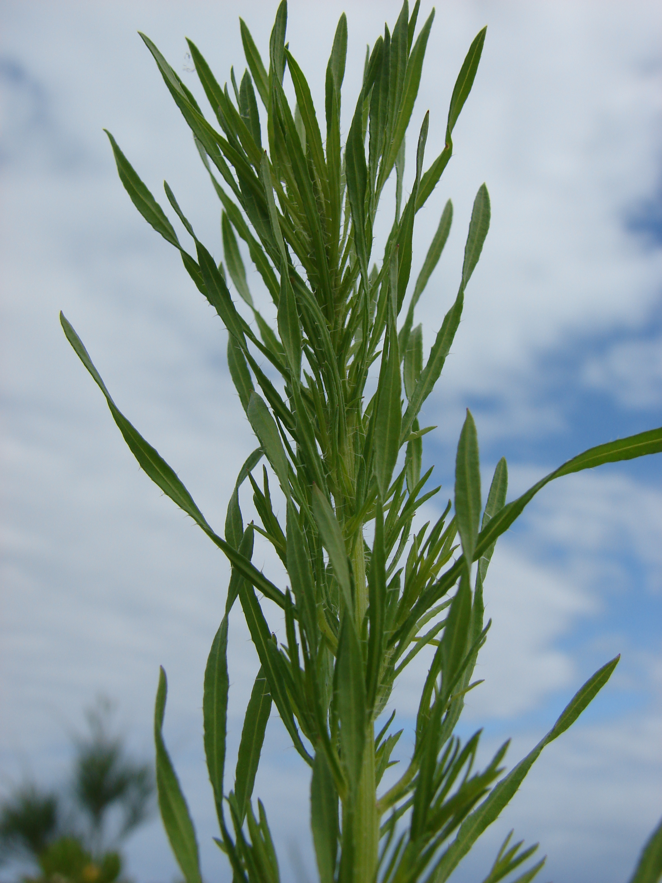 Conyza canadensis var. pusilla (leaves). Location: Midway Atoll, North Beach Sand Island